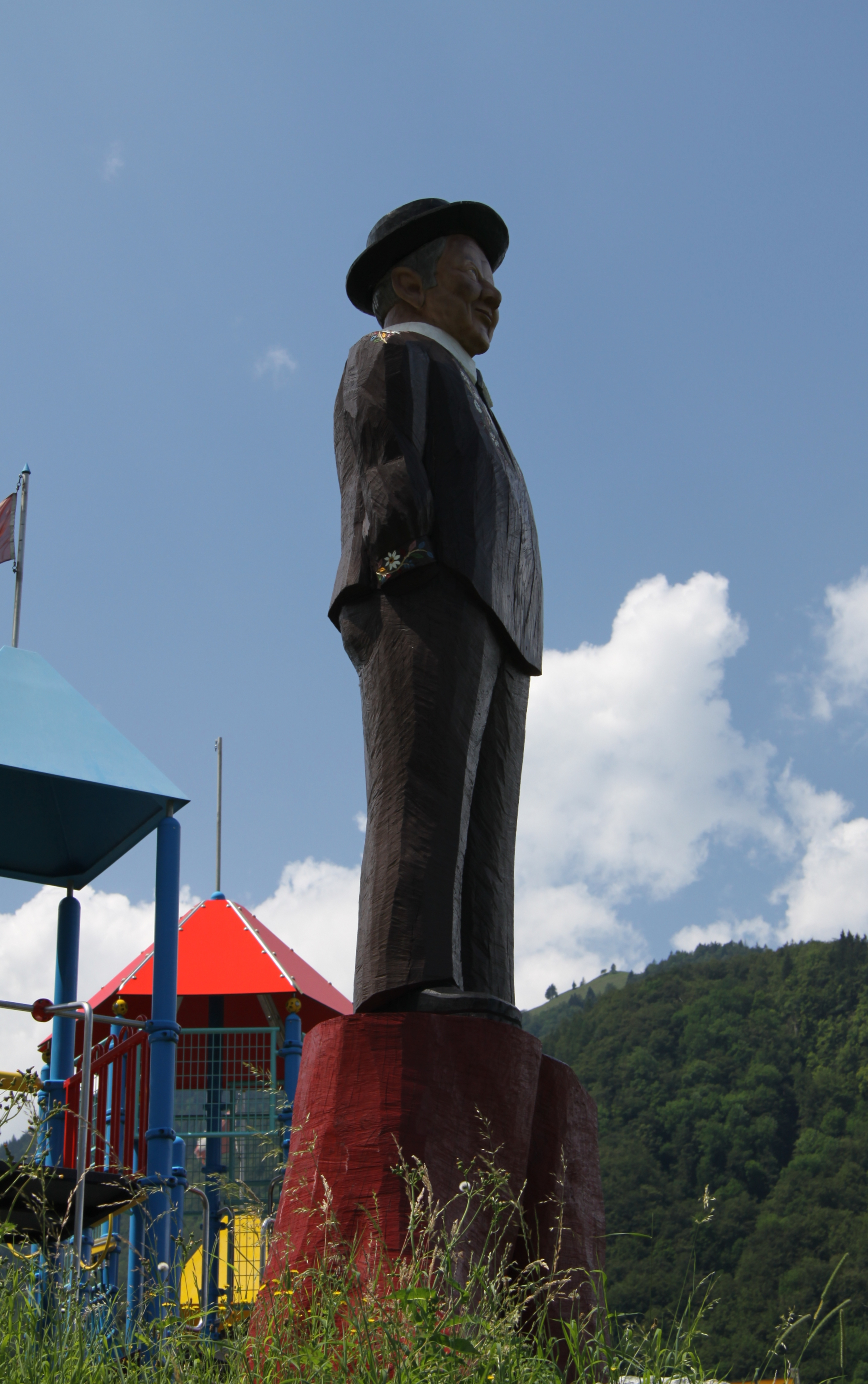 Statue of Ruedi Rymann in Canton of Obwalden, Switzerland